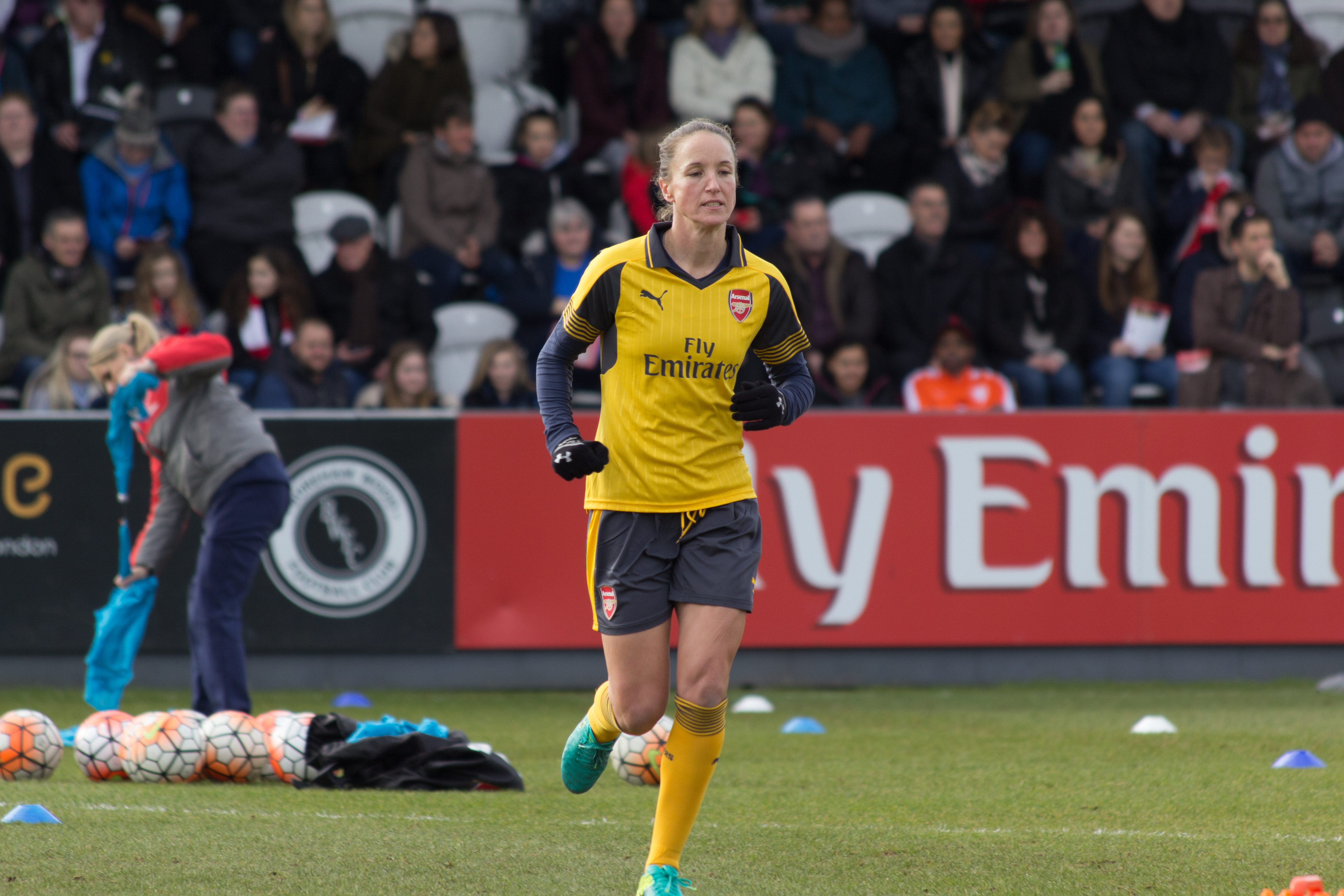 Arsenal LFC (Red) v Kelly Smith All-Stars XI (Yellow), 19 February 2017 – warmups